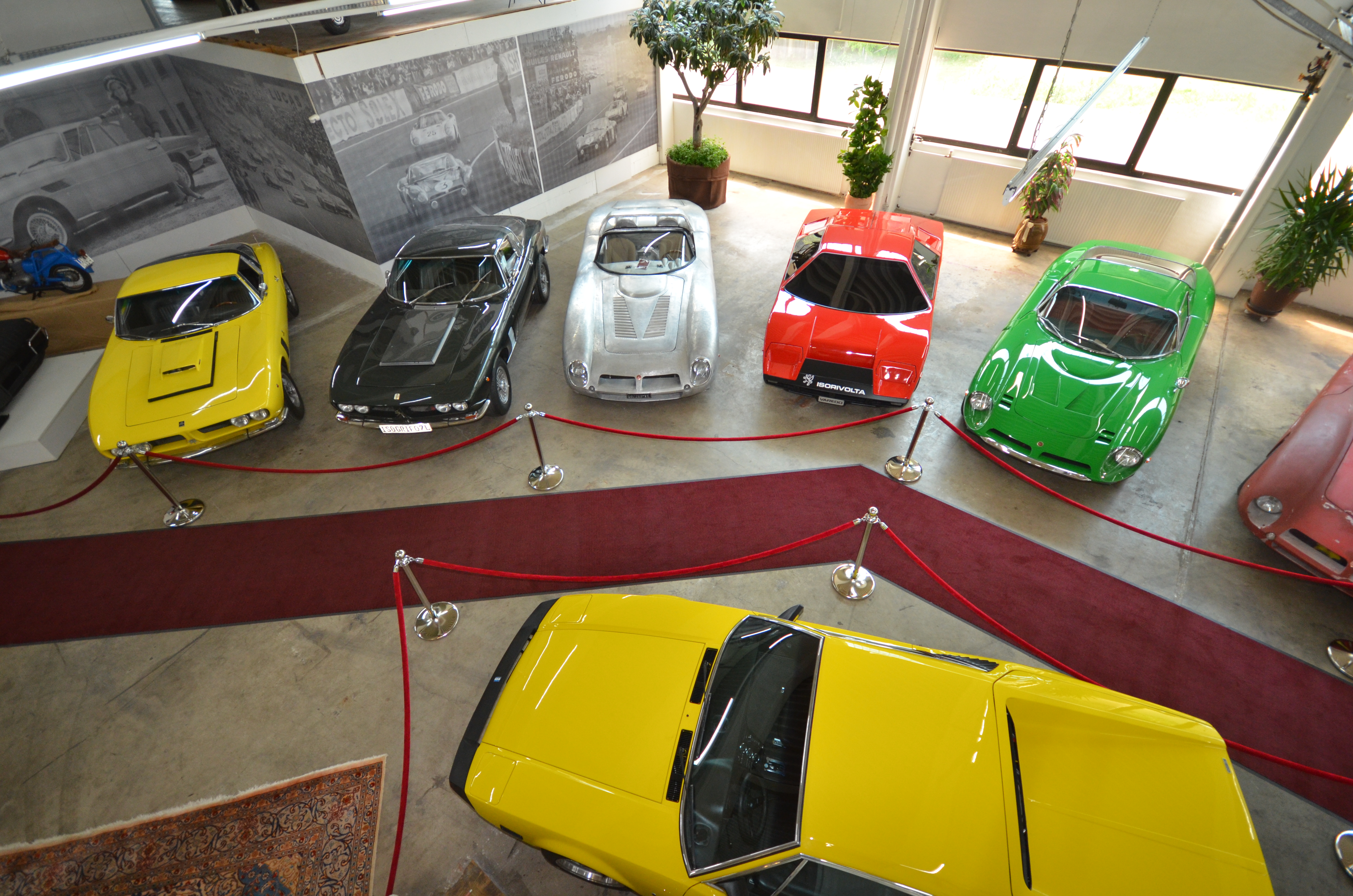 Cars of the brands Iso and Bizzarrini in the new Museumshall number three of the Deutsches Fahrzeugmuseum Fichtelberg.